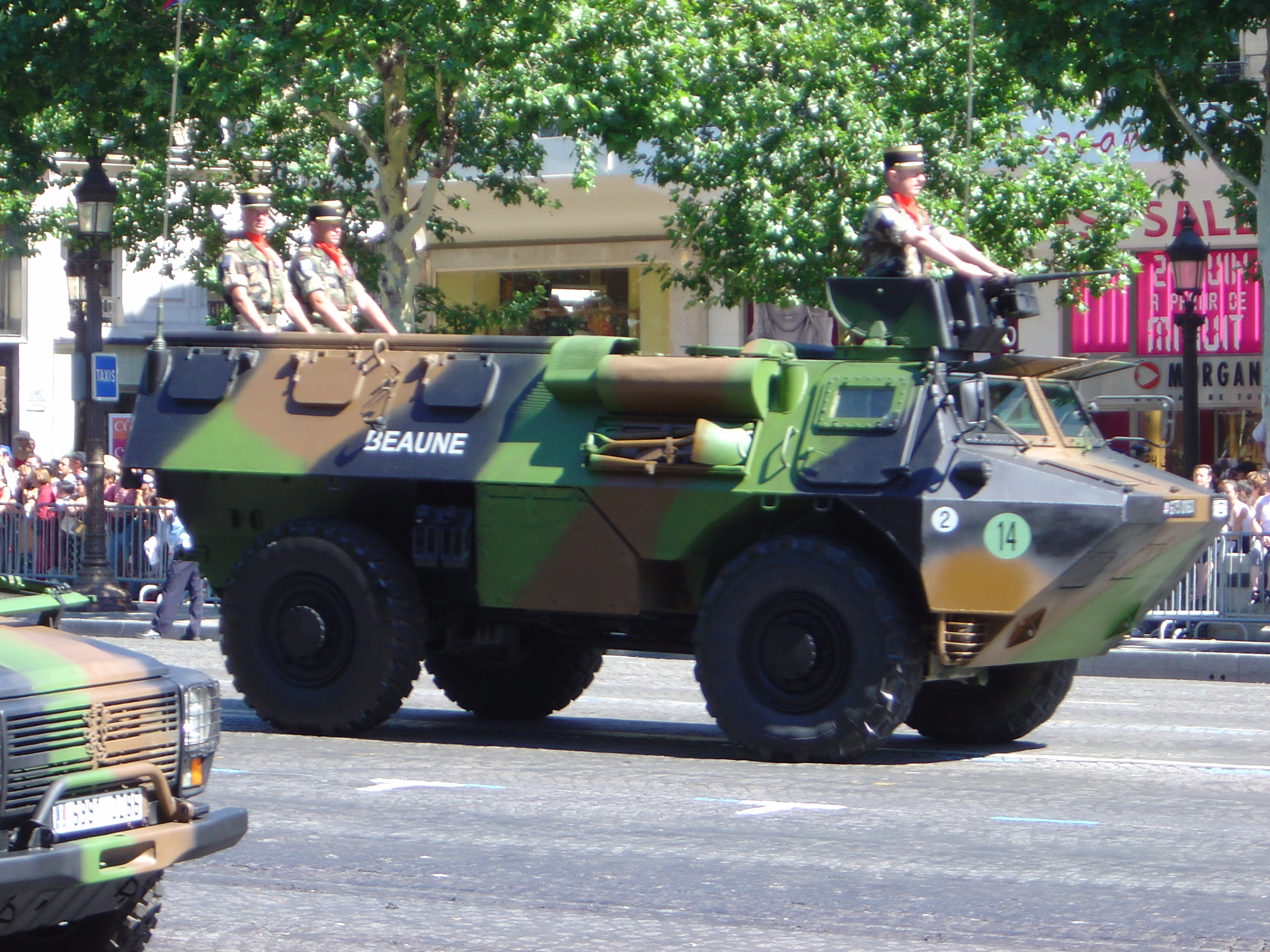 A VAB during the 2003 Bastille Day celebrations in Paris, France.